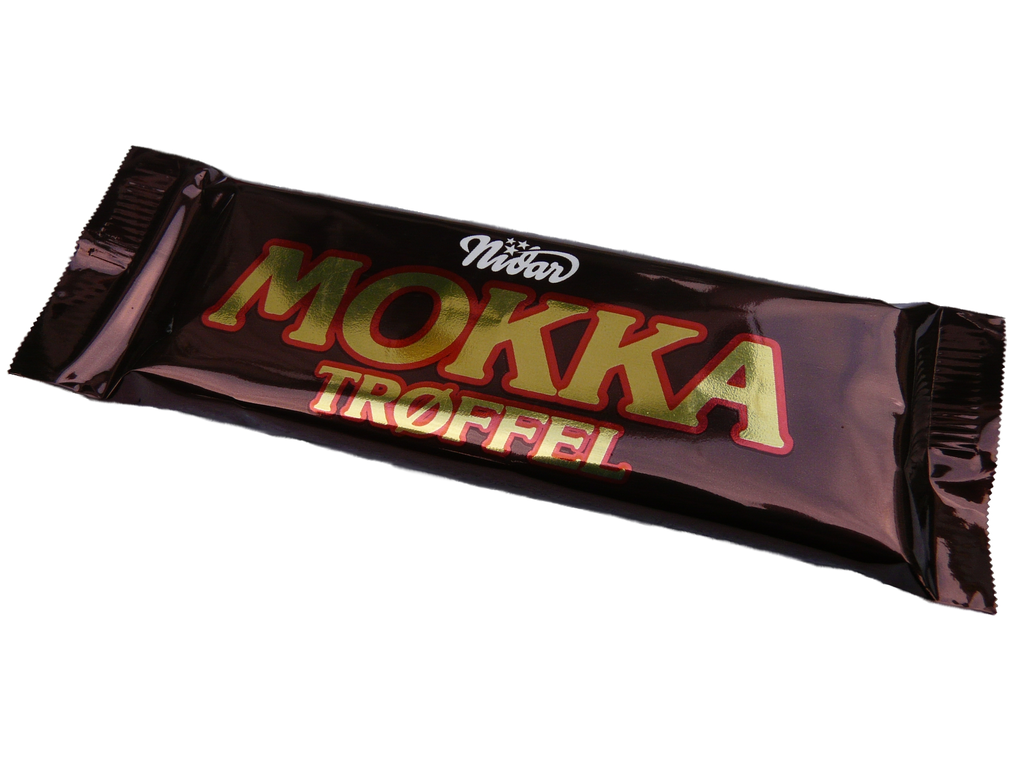 Image of a "Mokkatroeffel".